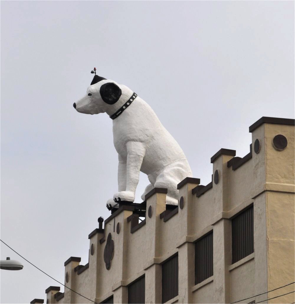 Nipper the logo for RCA, HMV and other record companies, atop the old RTA (RCA distributor) building on Broadway in Albany, New York